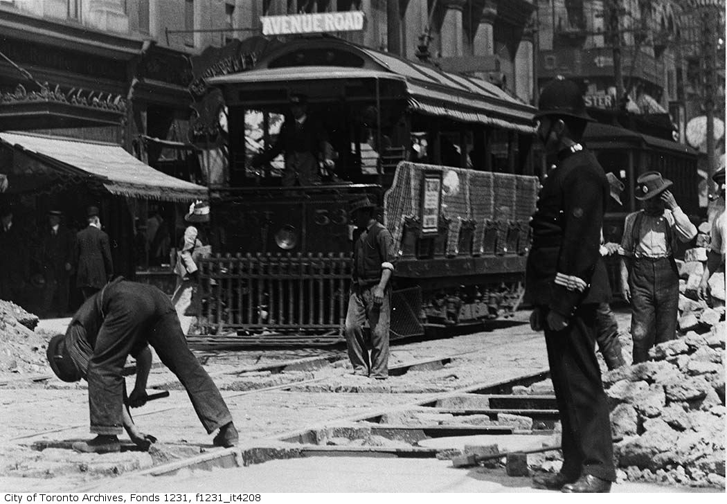 Photographer: Arthur Goss May 25, 1911 City of Toronto Archives Fonds 1231, Item 4208 This image is available from the City of Toronto Archives, listed under the archival citation Fonds 1231, Item 4208. This tag does not indicate the copyright status of the attached work. A normal copyright tag is still required. See Commons:Licensing for more information.